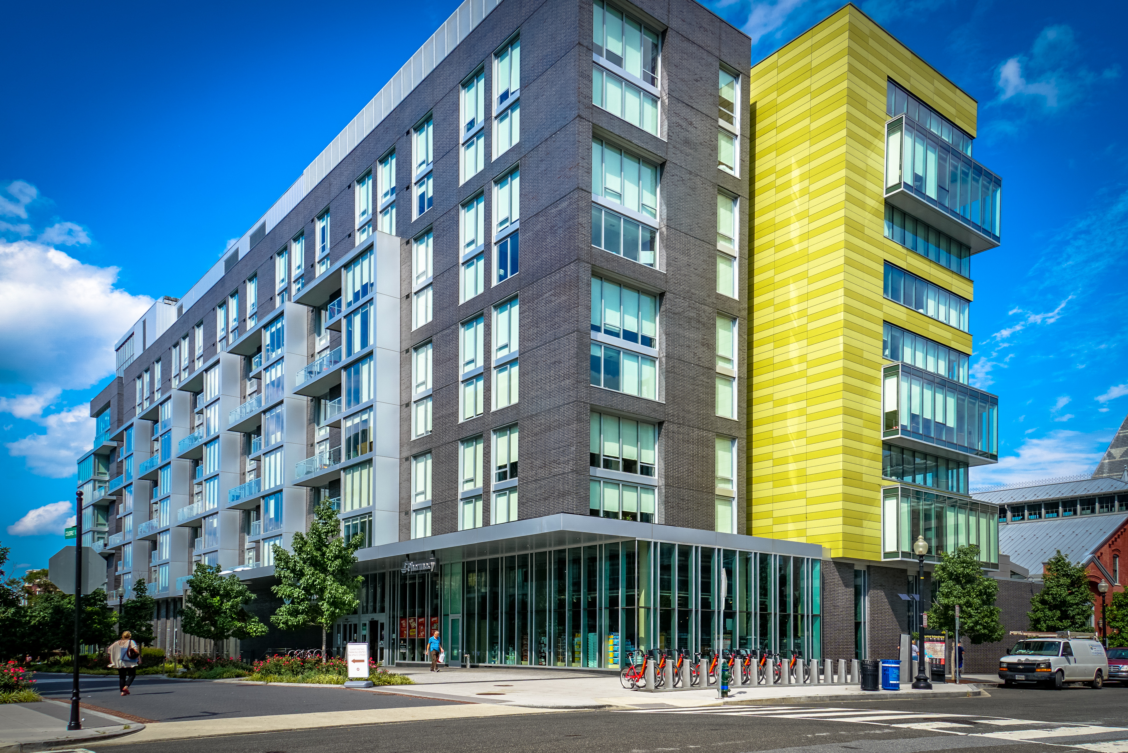 "Previous" and "Current" co-exist in the Shaw Neighborhood, Washington, DC USA The location where Tony Randolph Hunter was probably struck (and later died) on his way to BeBar in 2008. There is no memorial or other trace of the killing present.